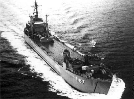 USS Westchester County (LST-1167) underway, circa 1960, place unknown.